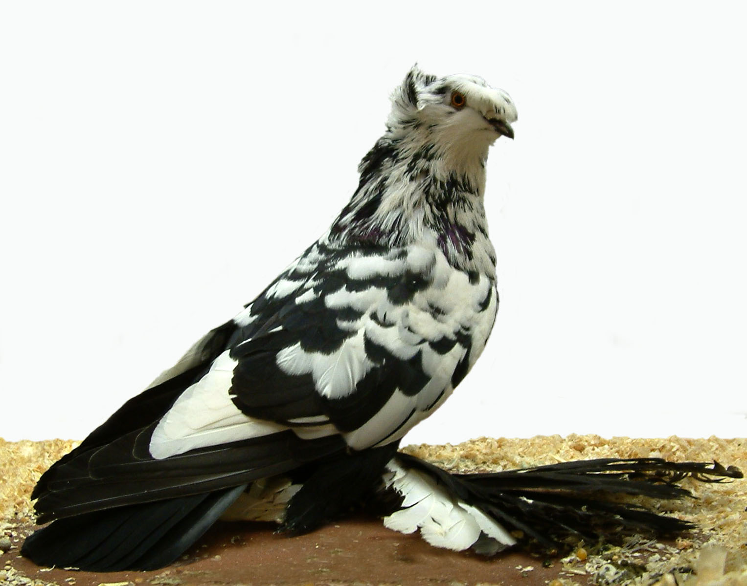 German Double Crested Trumpeter